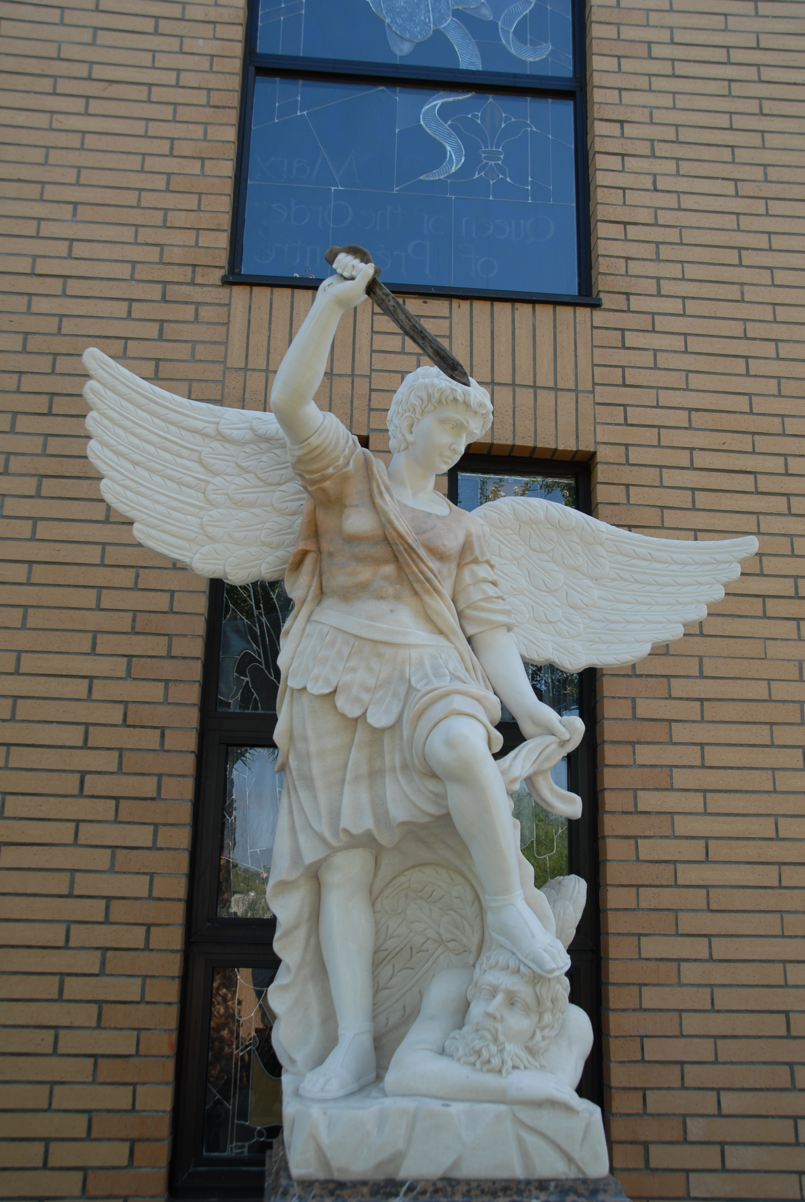 Statue at St. Michael's Abbey (Orange County, California)